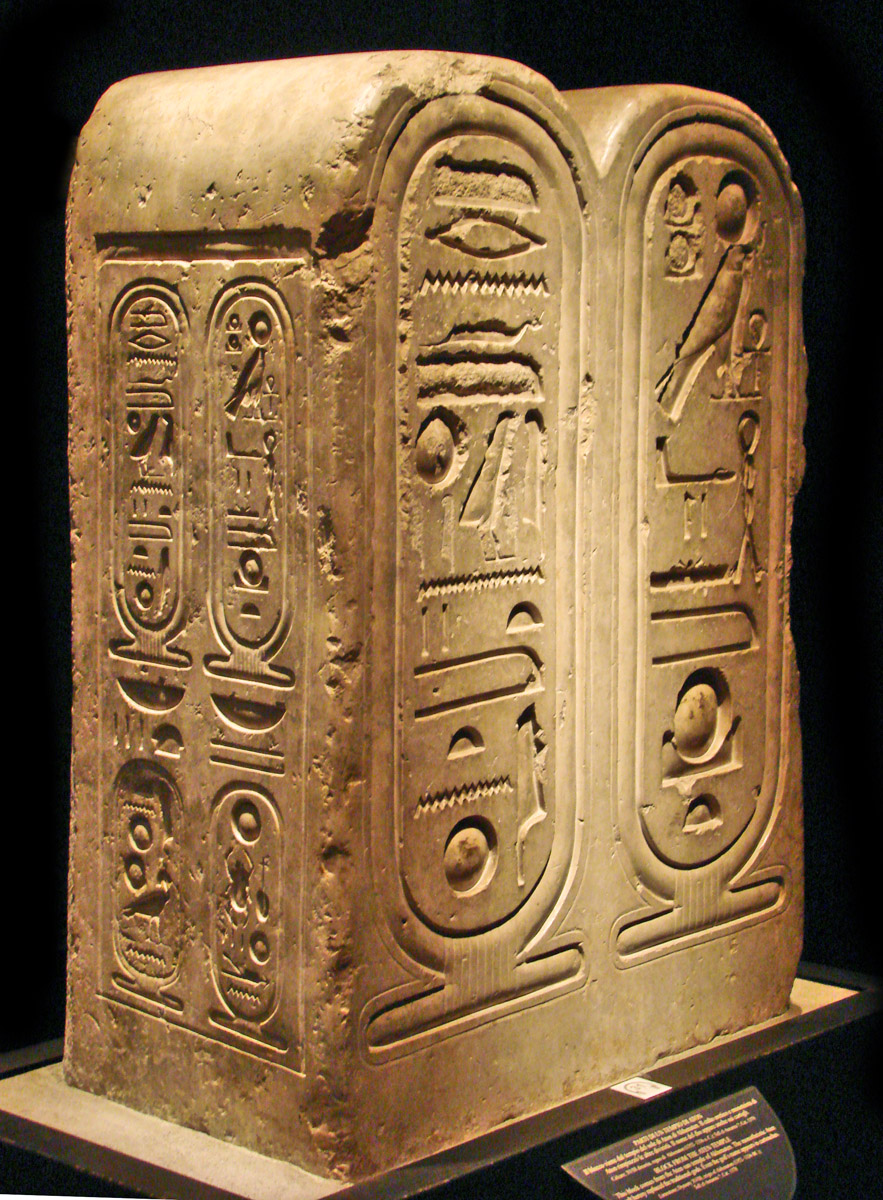 This is a well preserved stela from the Great temple of Aten from Akhetaten. (Tell el-Amarna) It bears the cartouche of Akhenaten, Neferkheperure, on its left side. The name of the god Aten is also shown enclosed in a royal cartouche. It is now in the Egyptian Museum of Turin.